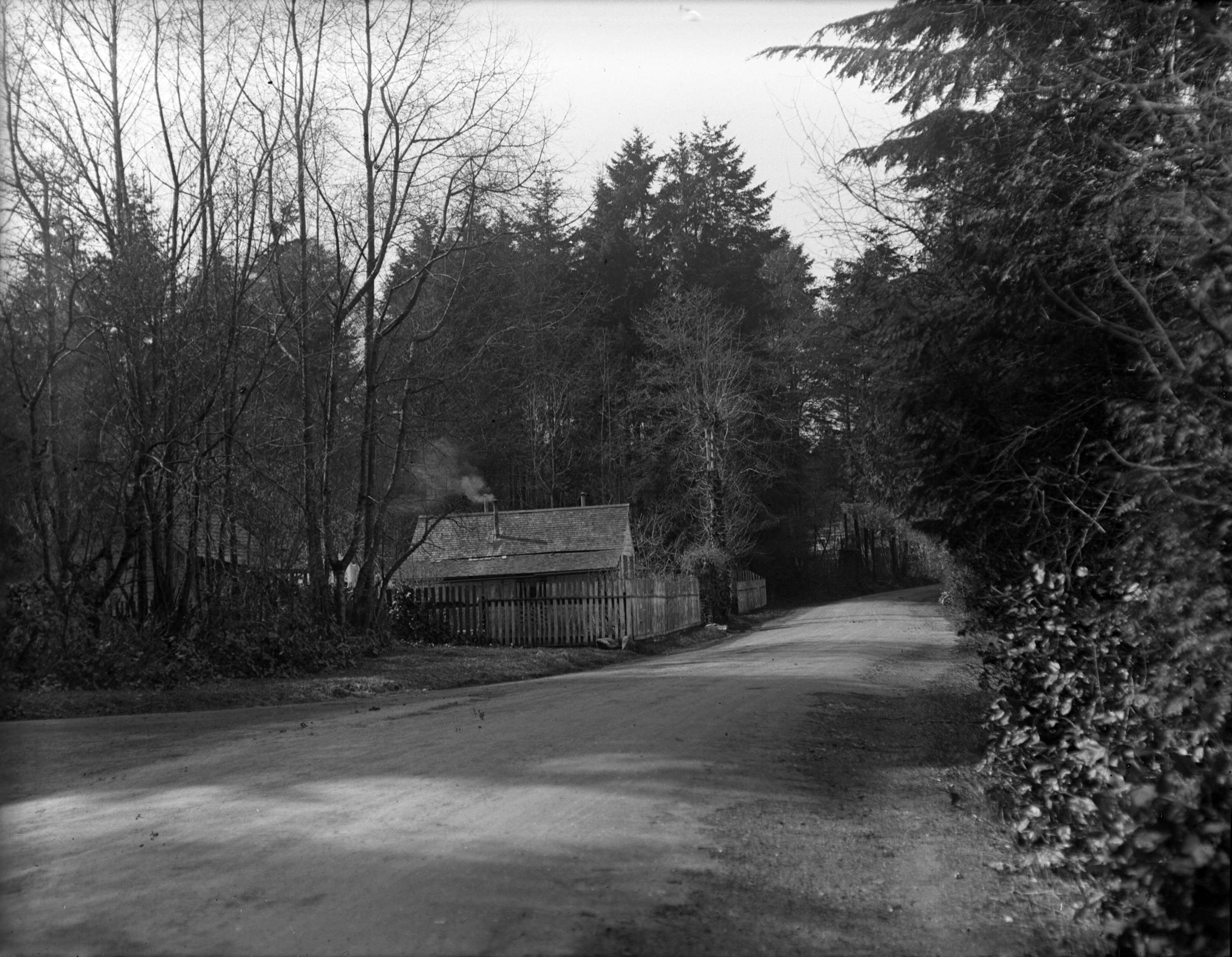 This was the home of Tim Cummings, the last person to live at Brockton Point, which had once been home to a community of mixed Aboriginal-European settlers. (The creator of this image died on July 27, 1960, and his fonds donated to the City of Vancouver Archives by Mrs. Doris Crookall in 1979.)